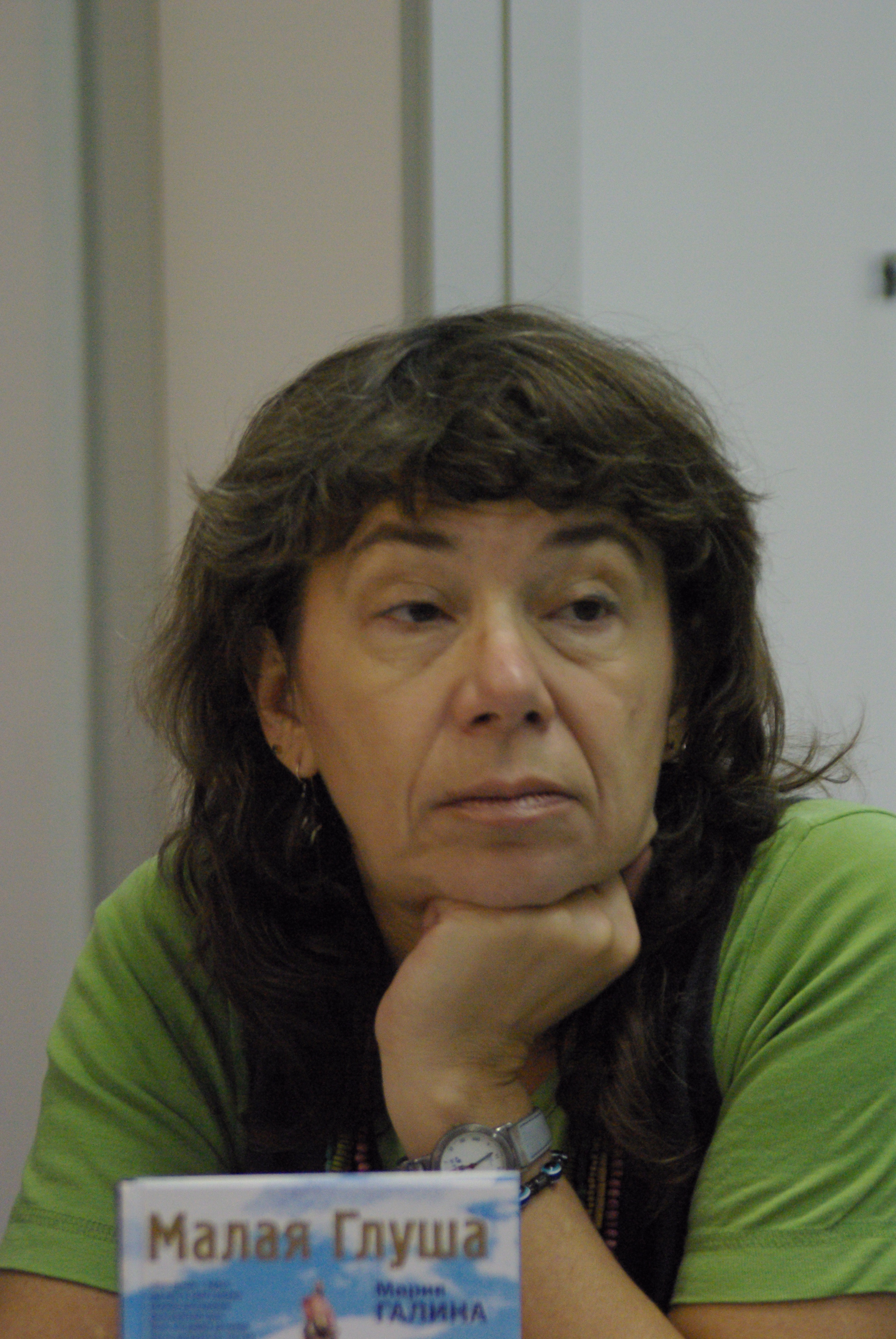 Russian writer Maria Galina at the 11 Moscow International Fair of Intelectual Books, Non-Fiction 2009